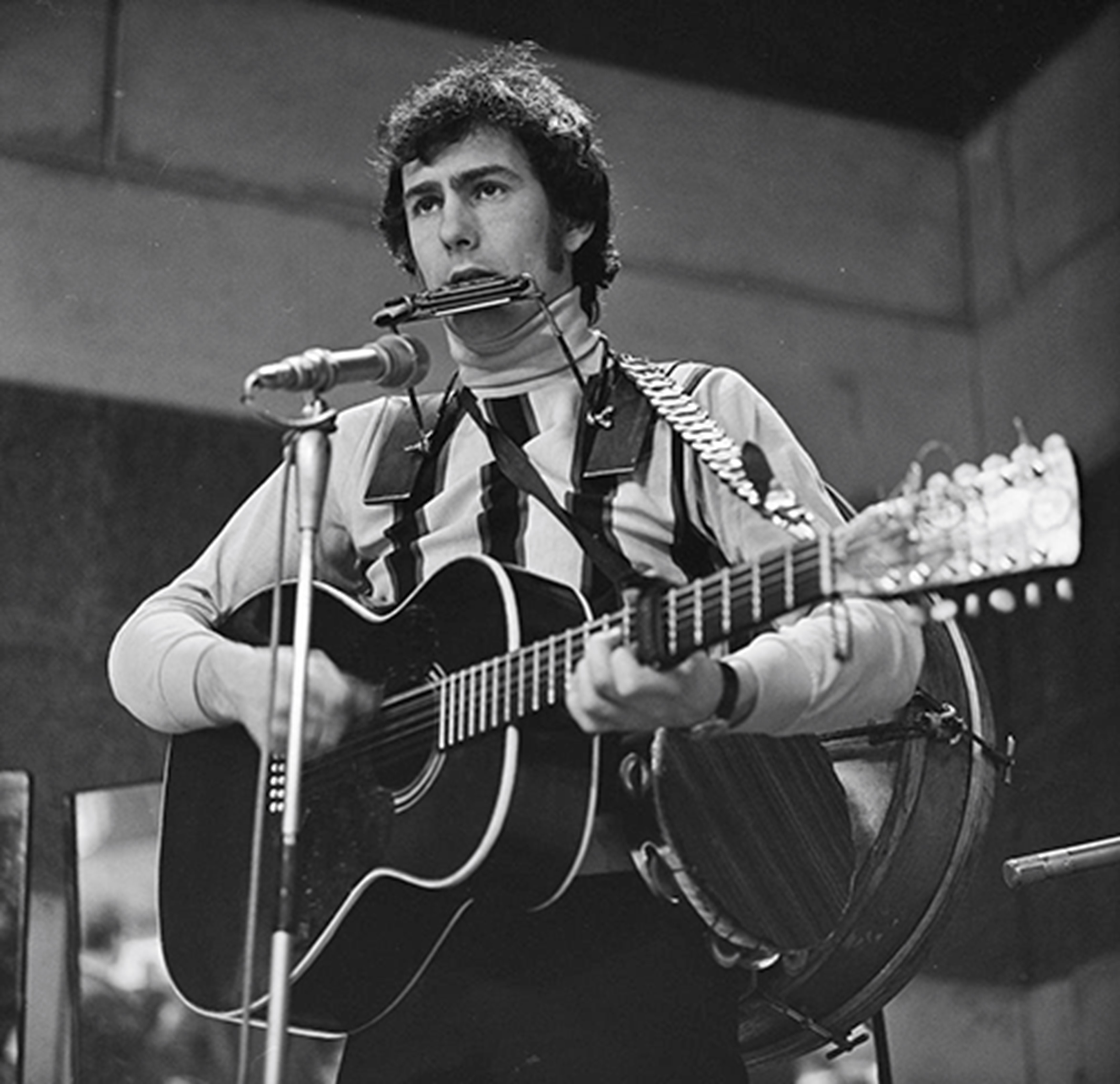 Don Partridge at Dutch TV programme Fenklup, 8 March 1968